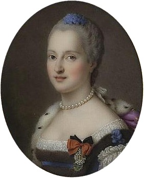 Portrait of Marie Josèphe of Saxony (1731-1767)